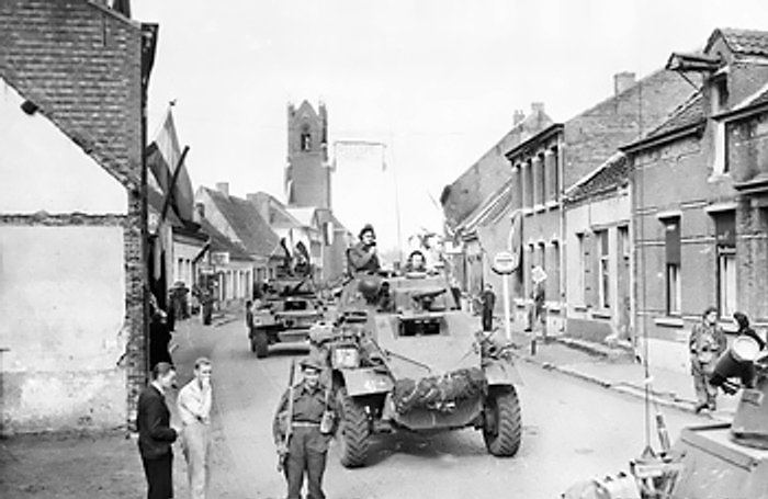 Canadian Daimler and Humber armoured cars in the Belgian-Dutch border town of Putte, during the Anglo-Canadian drive to cut off the German 15th Army on the islands of the Scheldt Estuary.